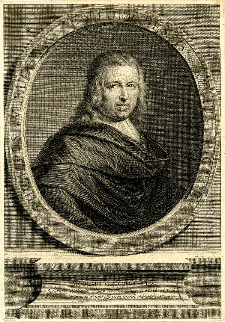 Portrait of Philippe Vleughels (1619-1694), 35,8x24,9cm